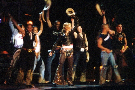 Madonna concert in Los Angeles back in '01